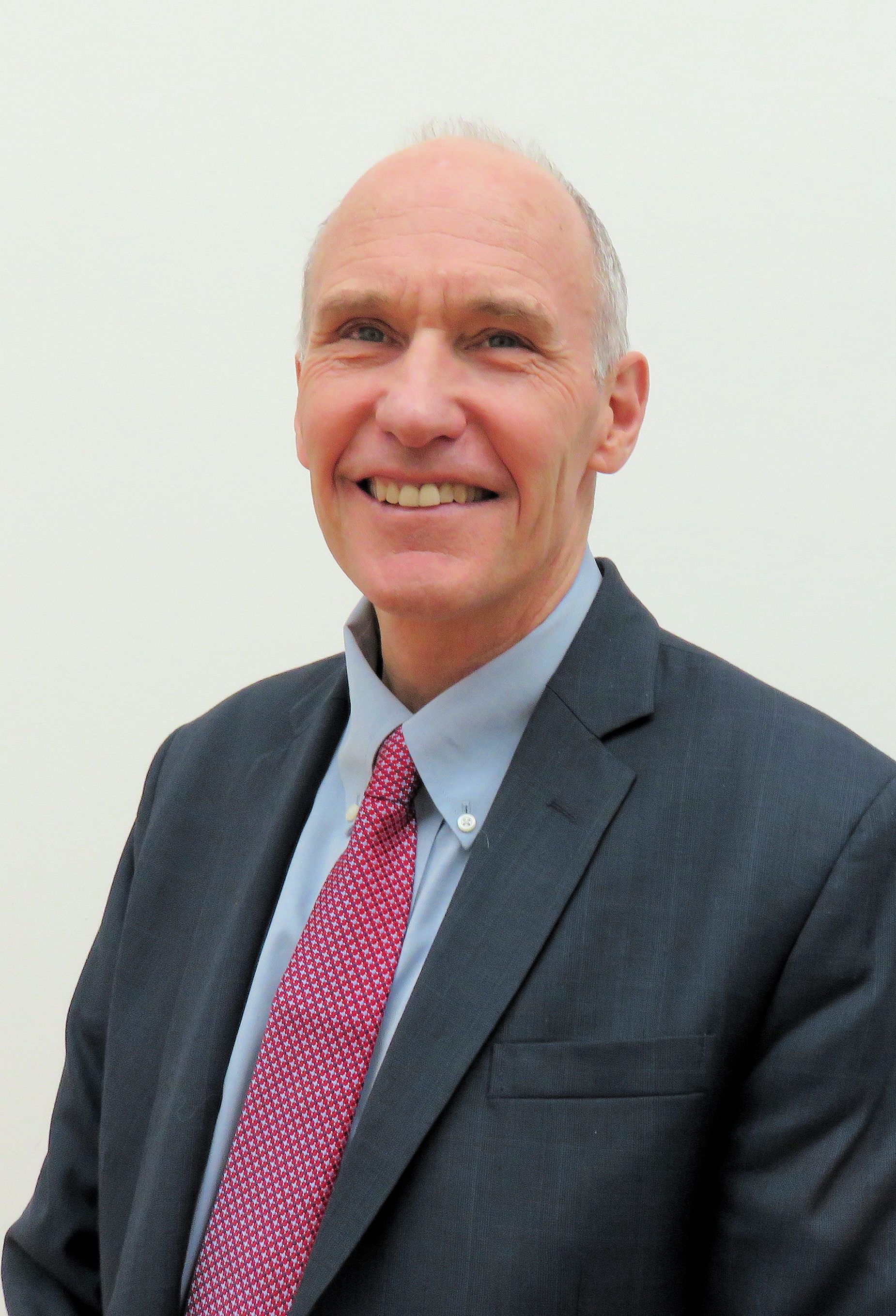 Carl H. June, M.D., Smilow Center for Transitional Research